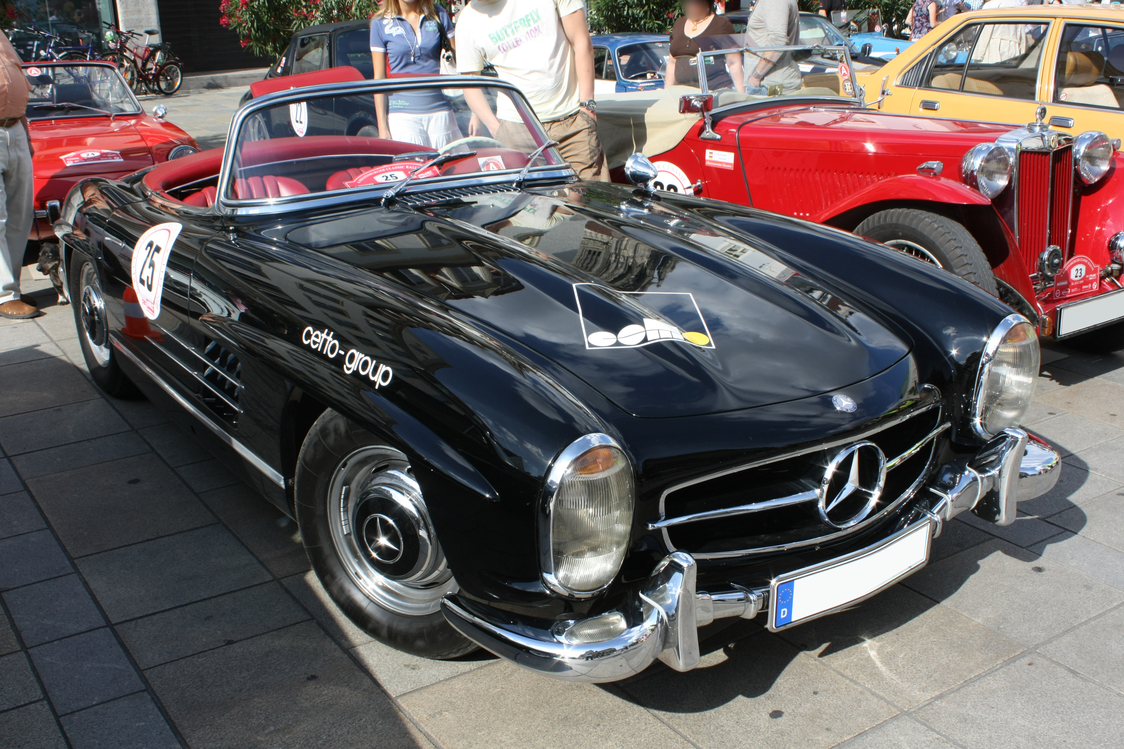 Mercedes-Benz W198 300SL Roadster